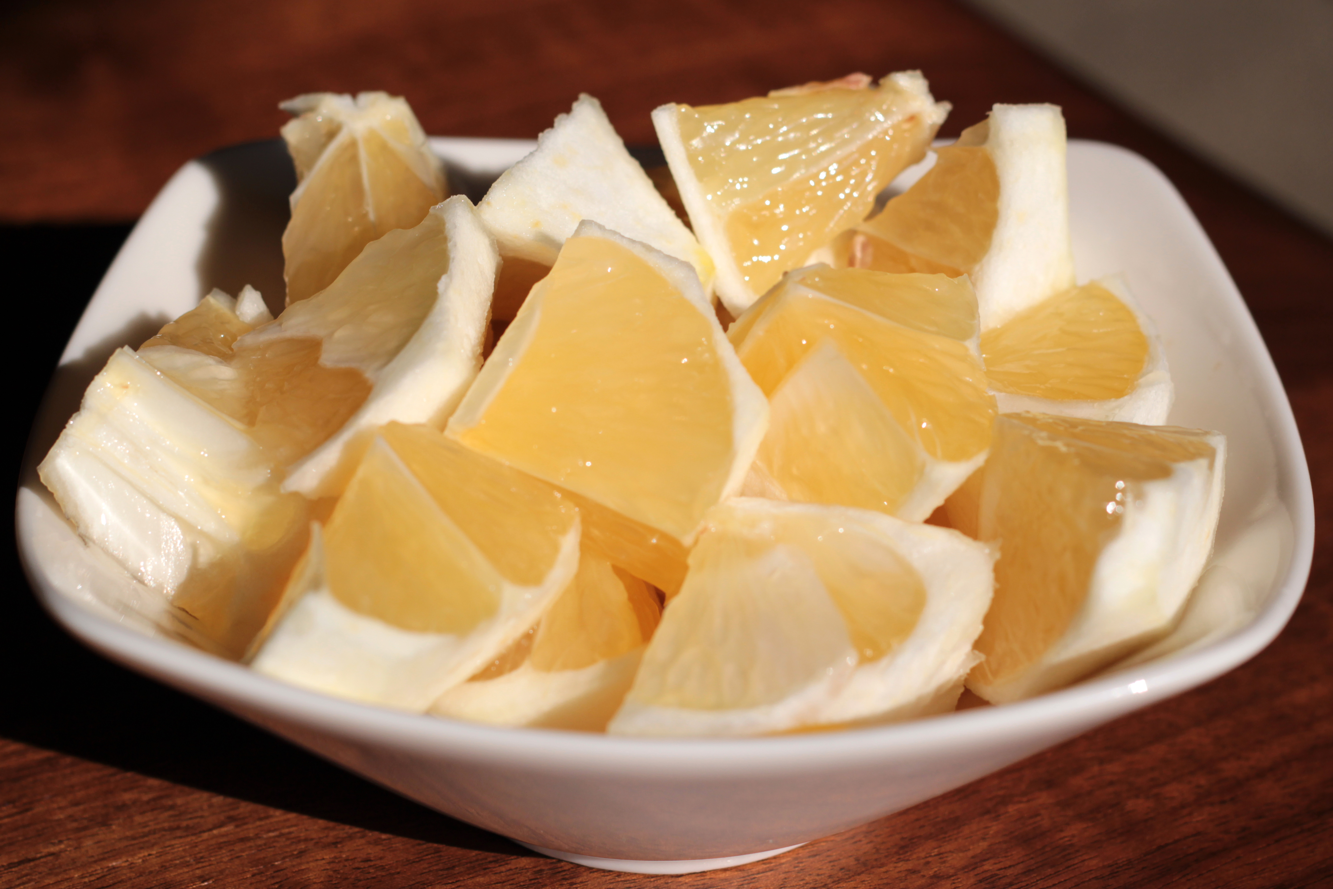 Hyuganatsu, cut up, ready to eat